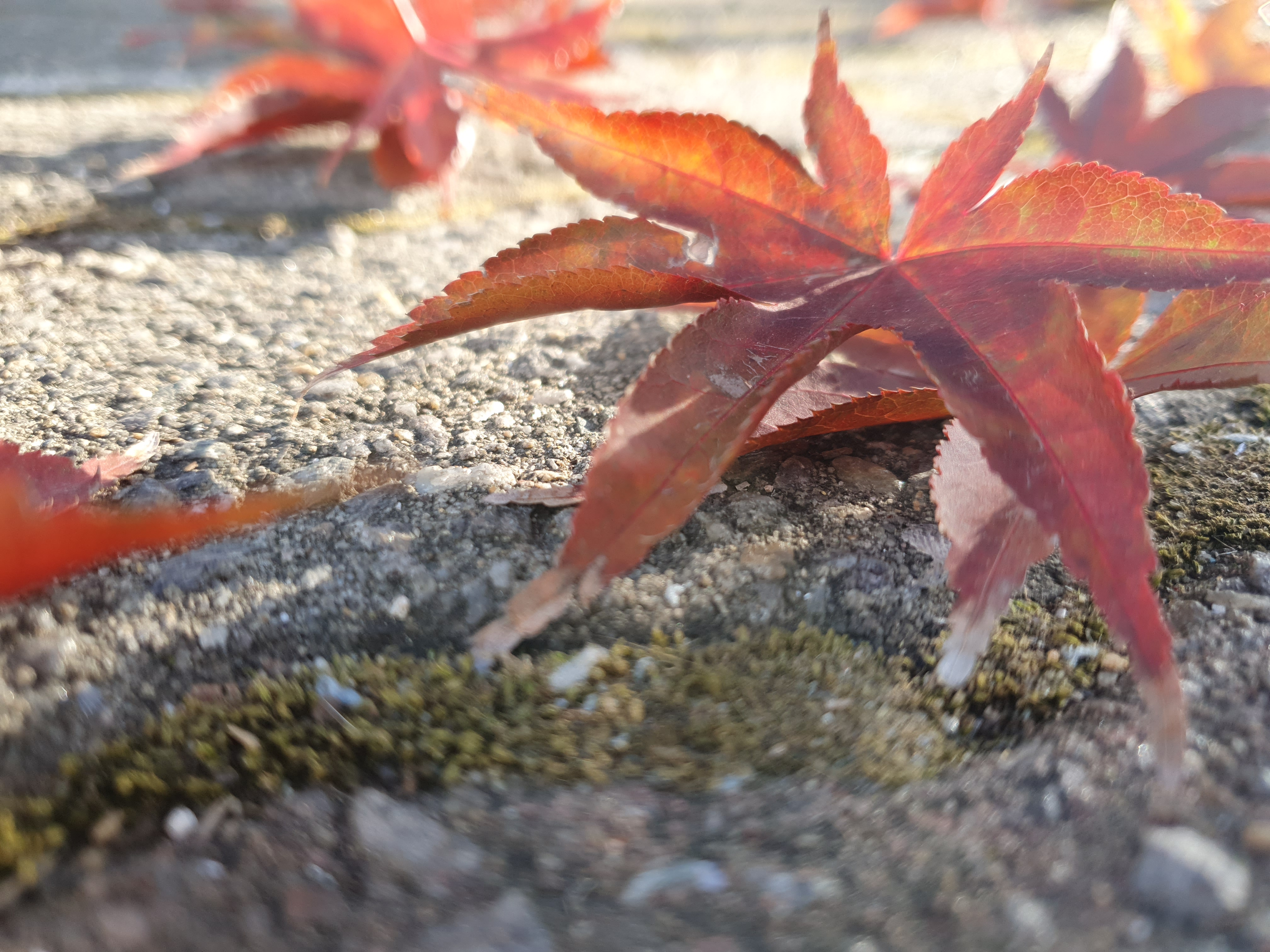 Tapak berhimpun